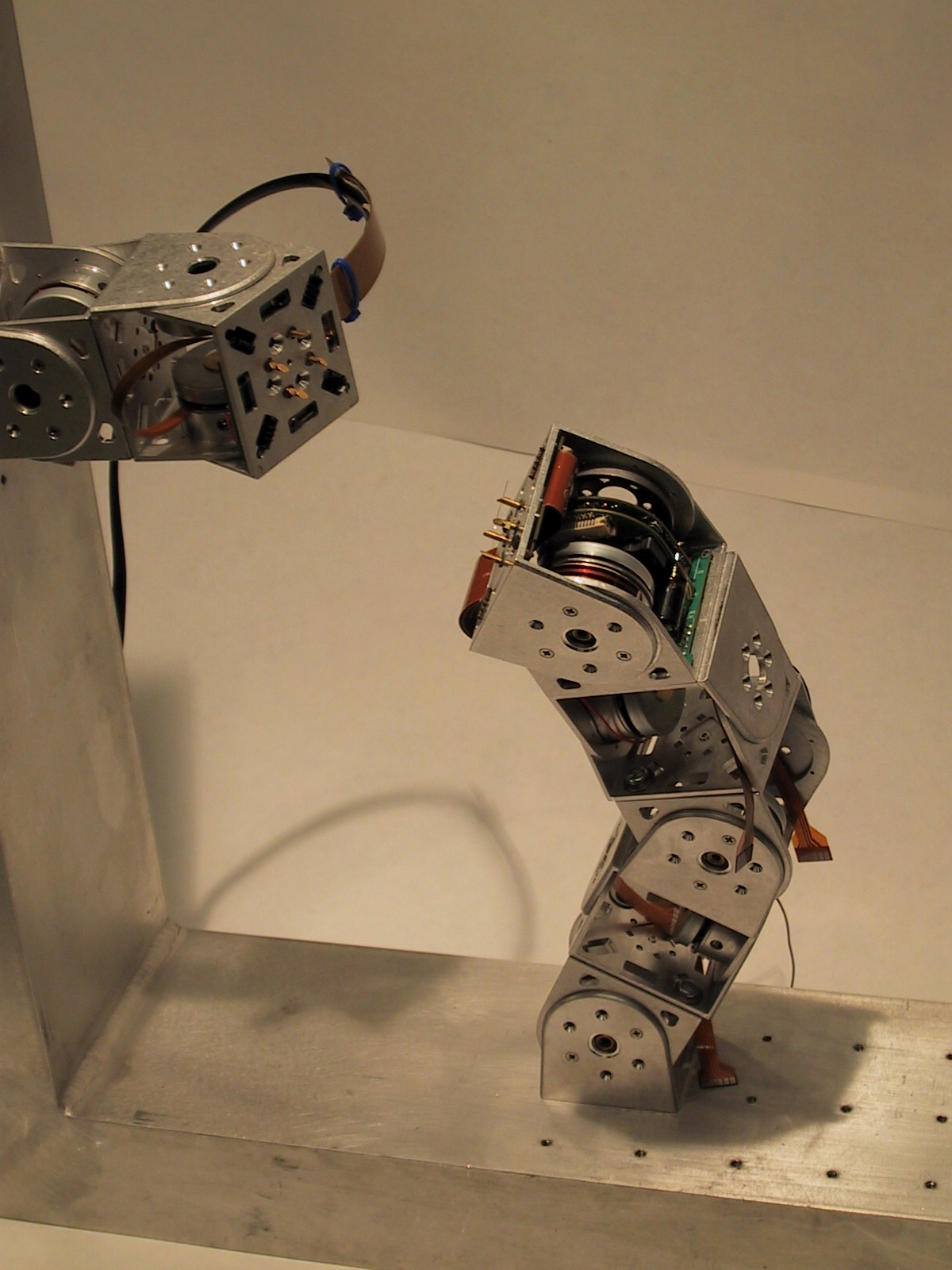 Polybot G3 photo Modular self-reconfigurable robot at PARC Mark Yim